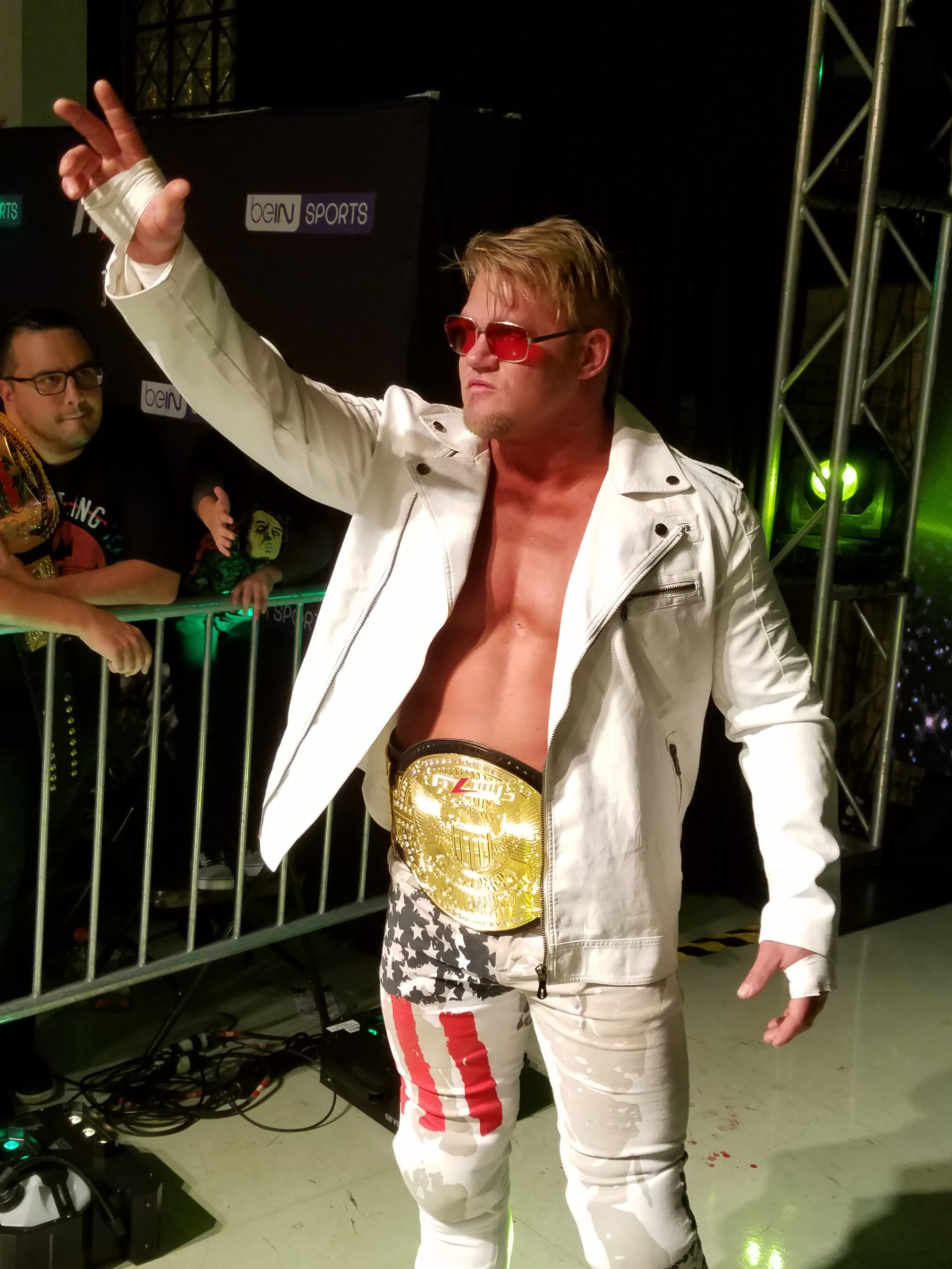 Professional wrestler Alexander Hammerstone standing in the ring entranceway at MLW Saturday Night Superfight on November 2, 2019 at Cicero Stadium in Cicero, Illinois